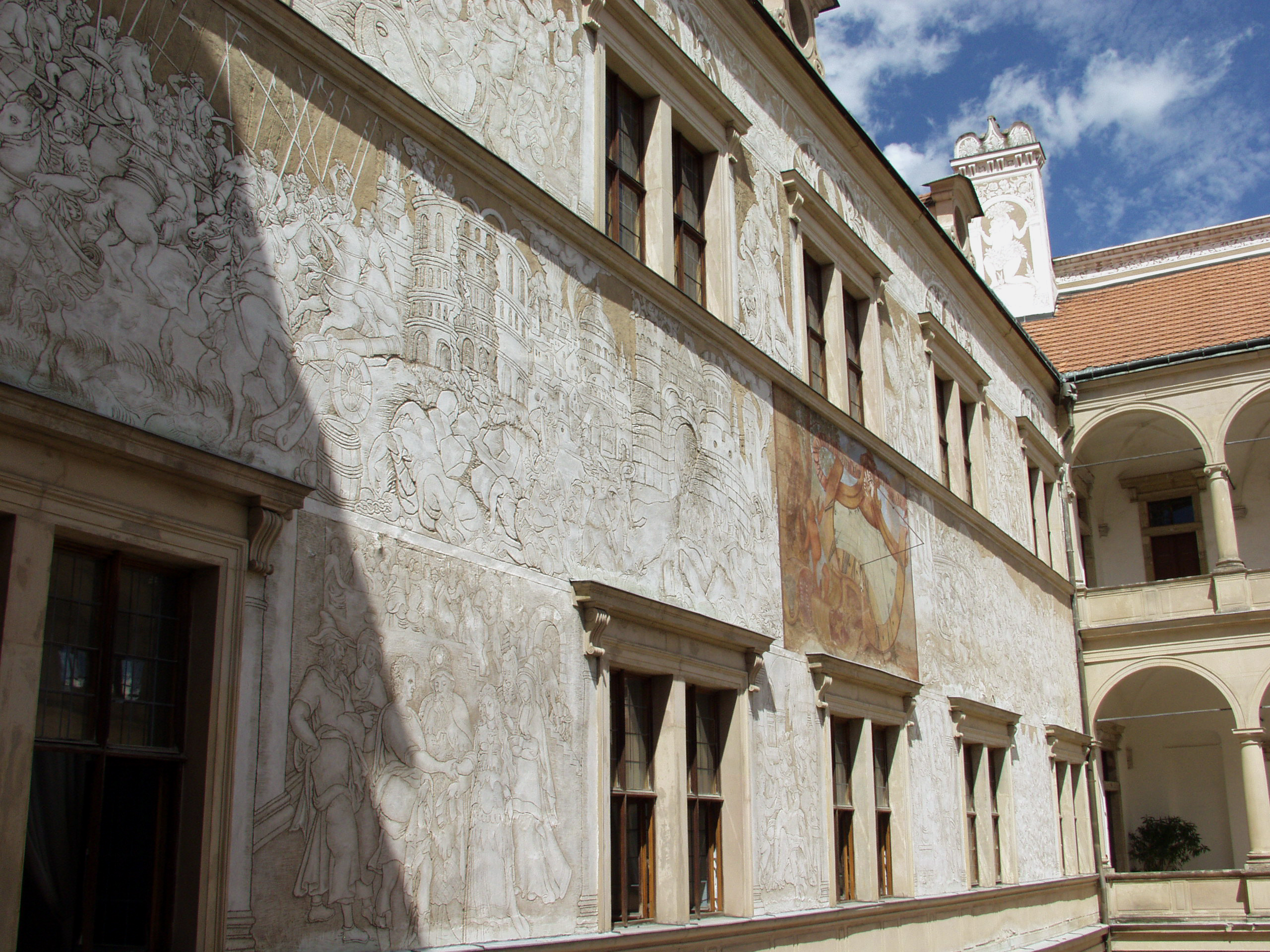 Chateu Litomyšl